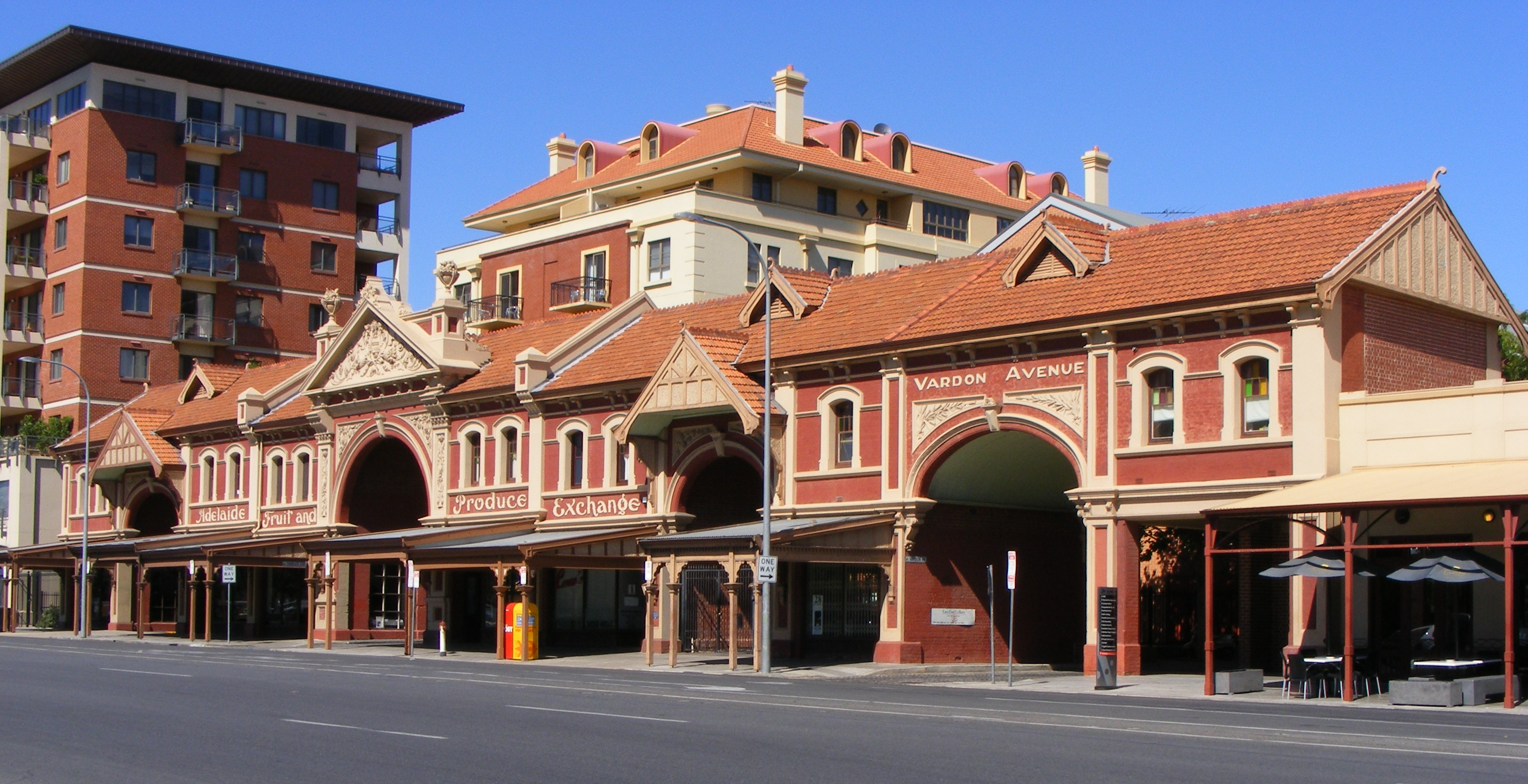 The facade of the old Adelaide Fruit and Produce Exchange building (also referred to as "The East End Market") at the northern end of East Terrace, Adelaide, South Australia, between Rundle and Grenfell Streets.